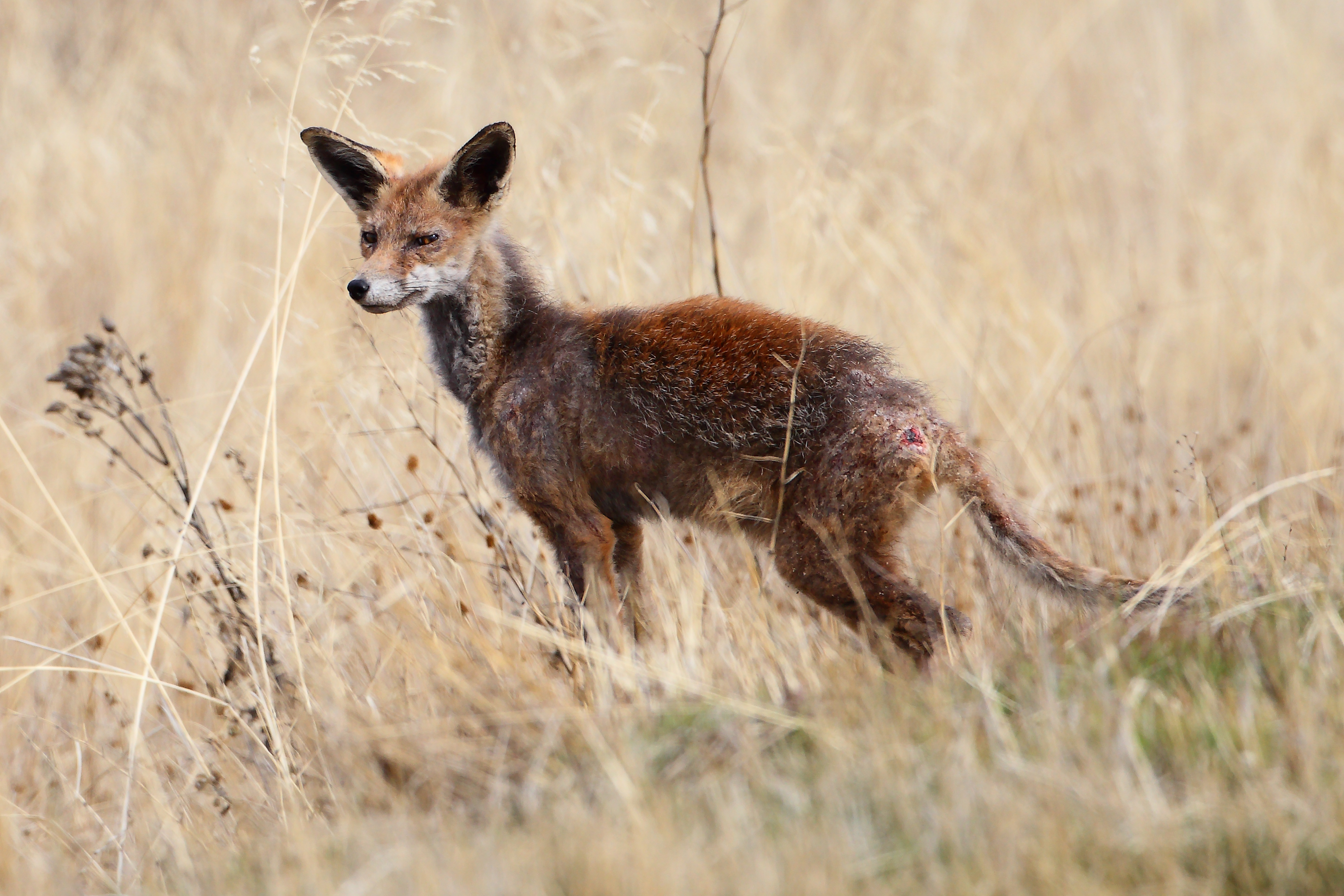 Red Fox affected with sarcoptes scabei